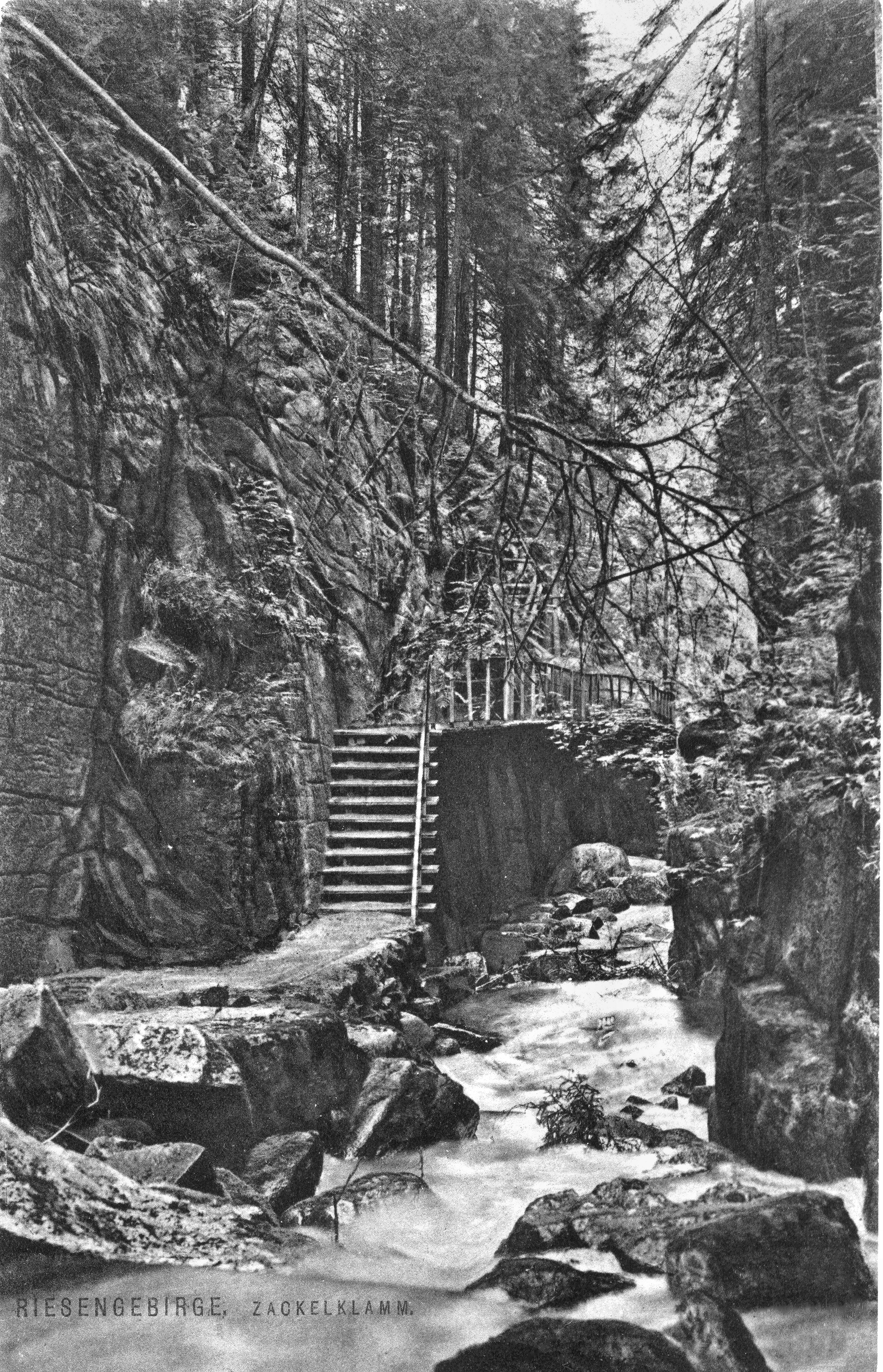 Kamieńczyk, Karkonosze, Germany now Poland.